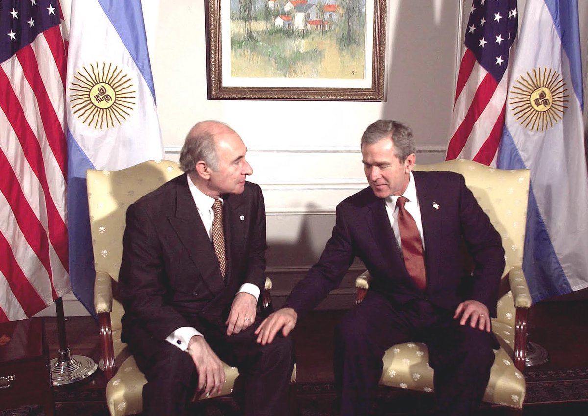 Fernando de la Rúa with George W. Bush in the White House.